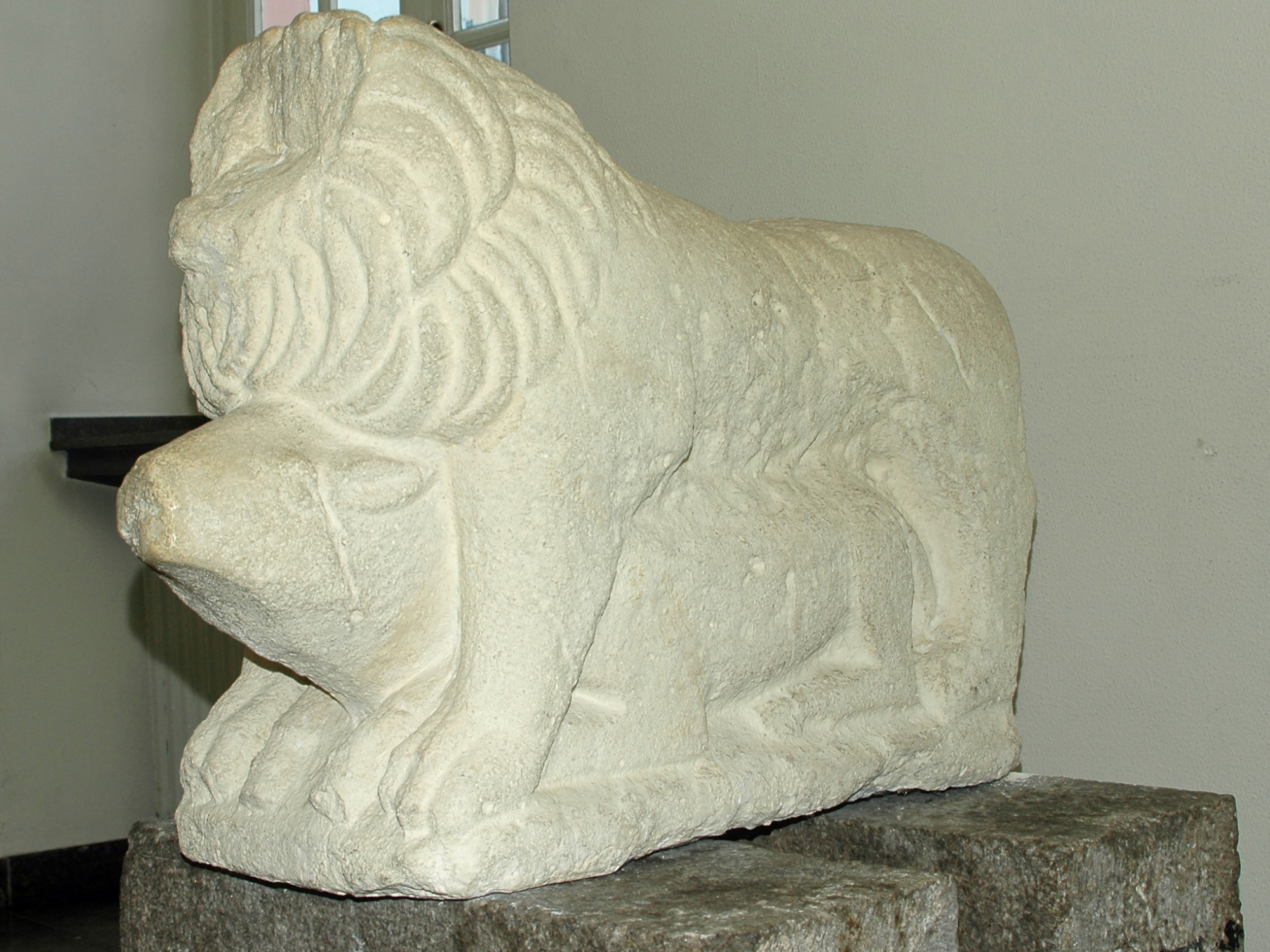 Das „steinerne Wölfchen“ – Bonner Wappentier in the old city hall of Bonn.